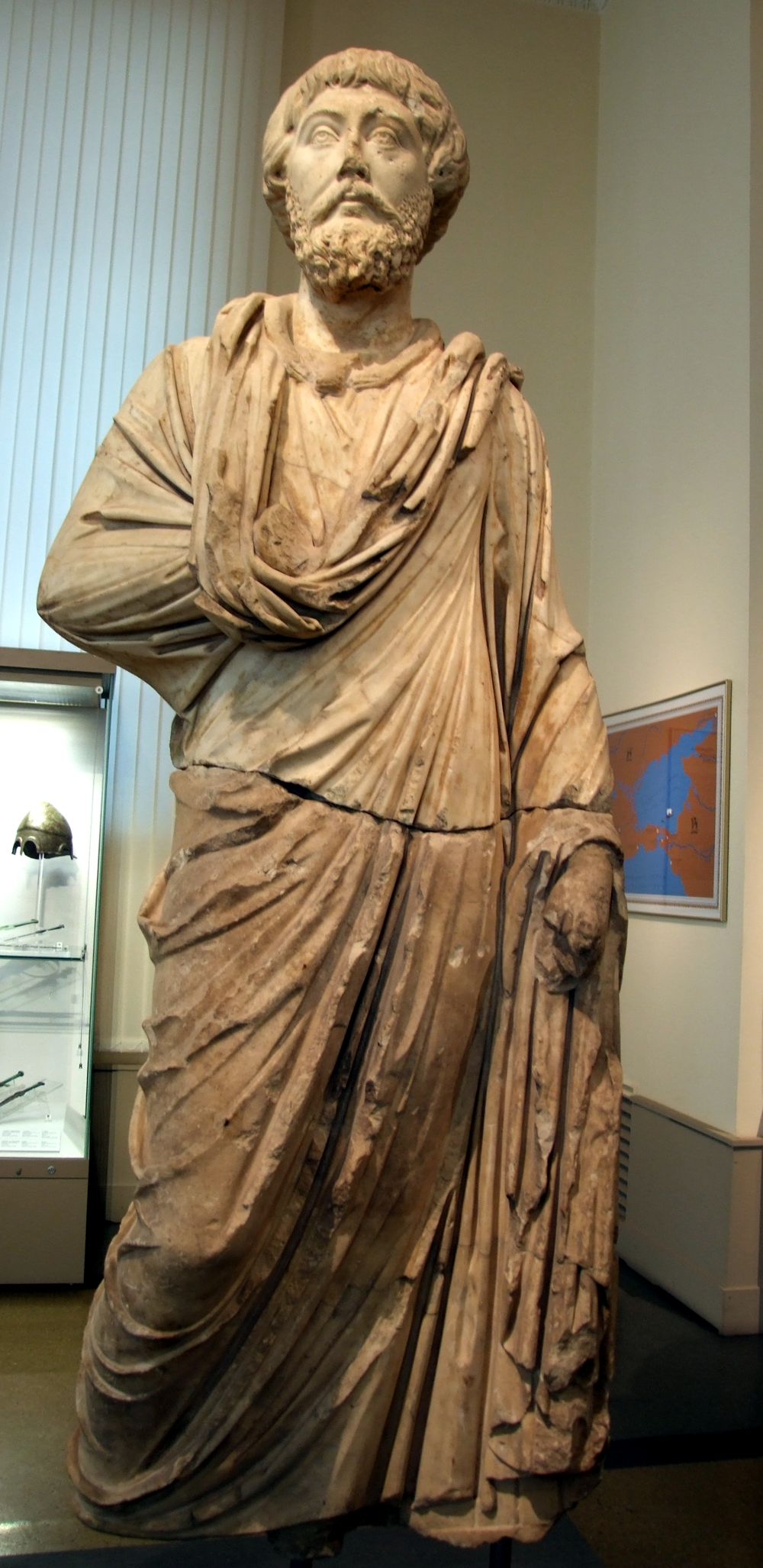 Ruler of Gorgippia, 180s AD. Pushkin museum